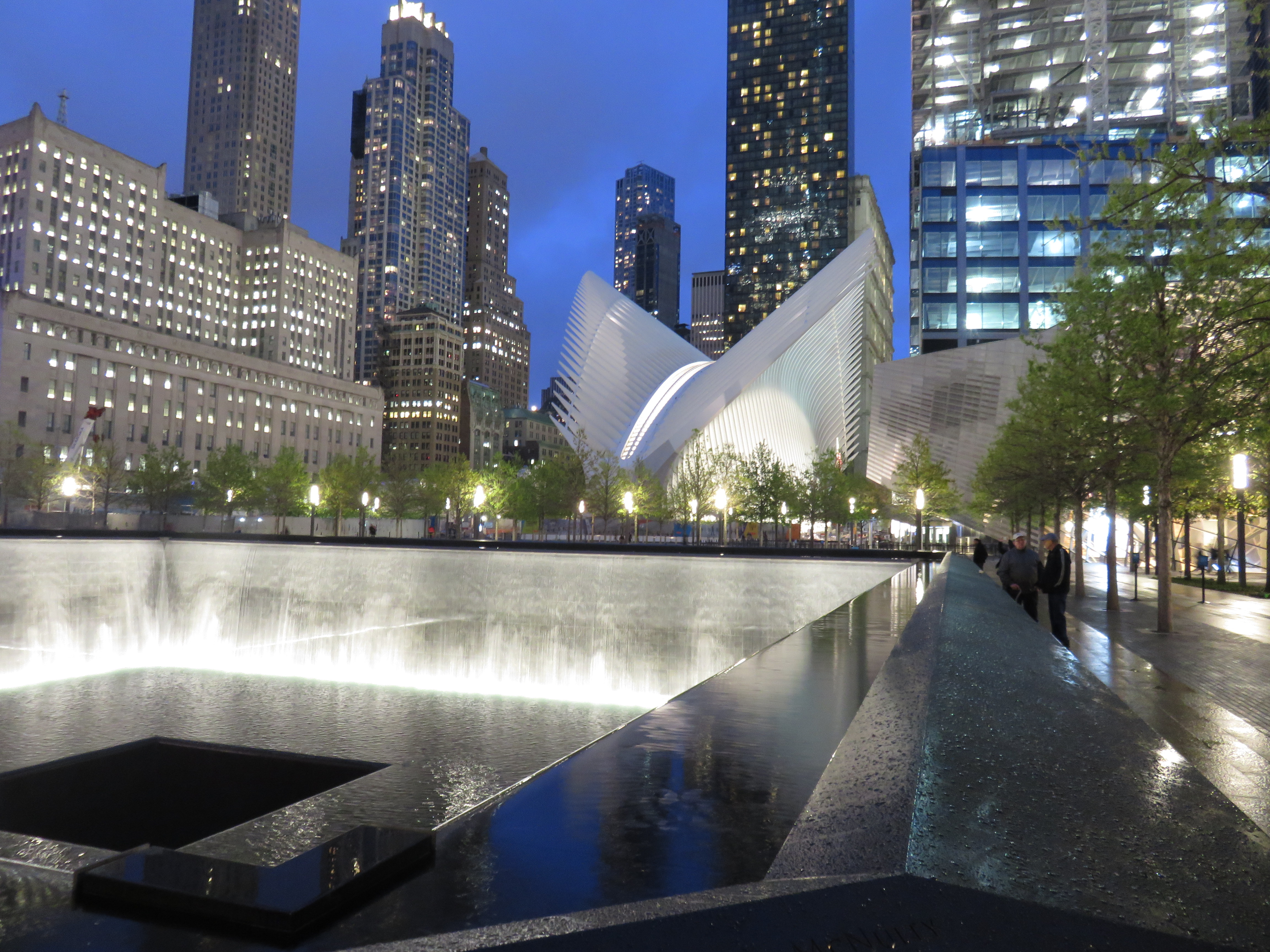 The new PATH terminal in the World Trade Center at night, viewed from across the 9/11 memorial plaza